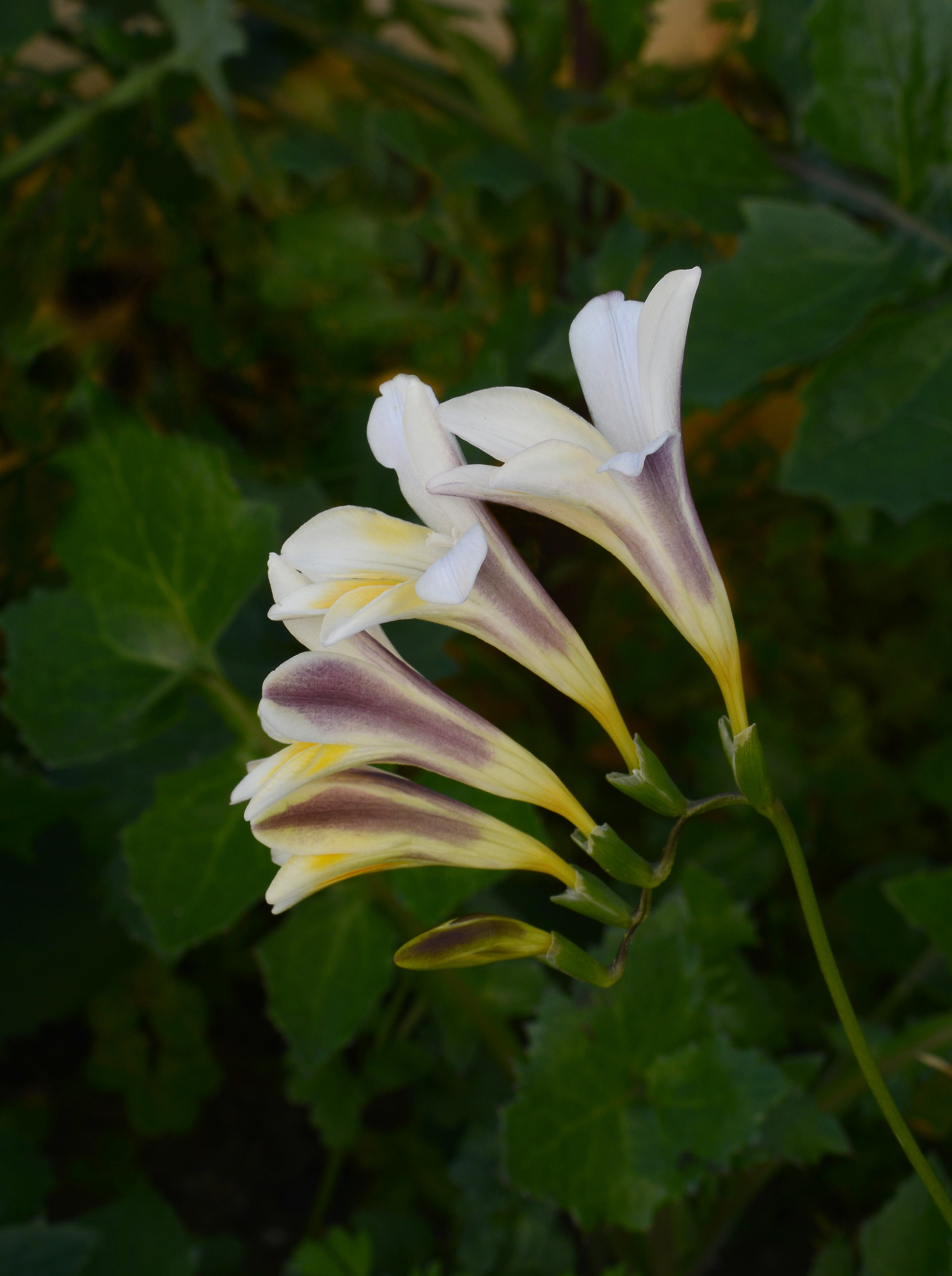 Cluster of Freesia alba flowers